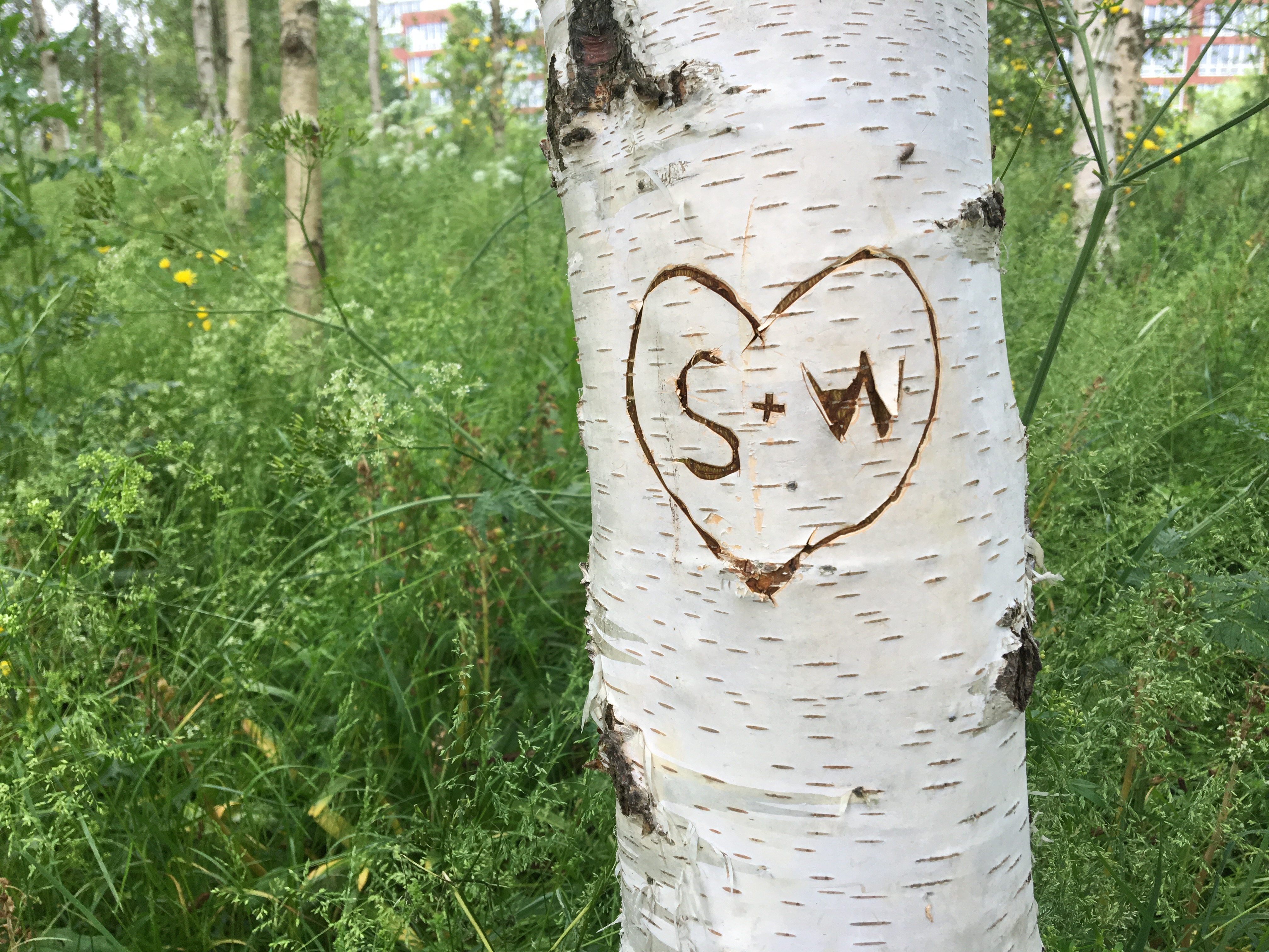 Lovers' carving on a tree in Vilnius, Lithuania